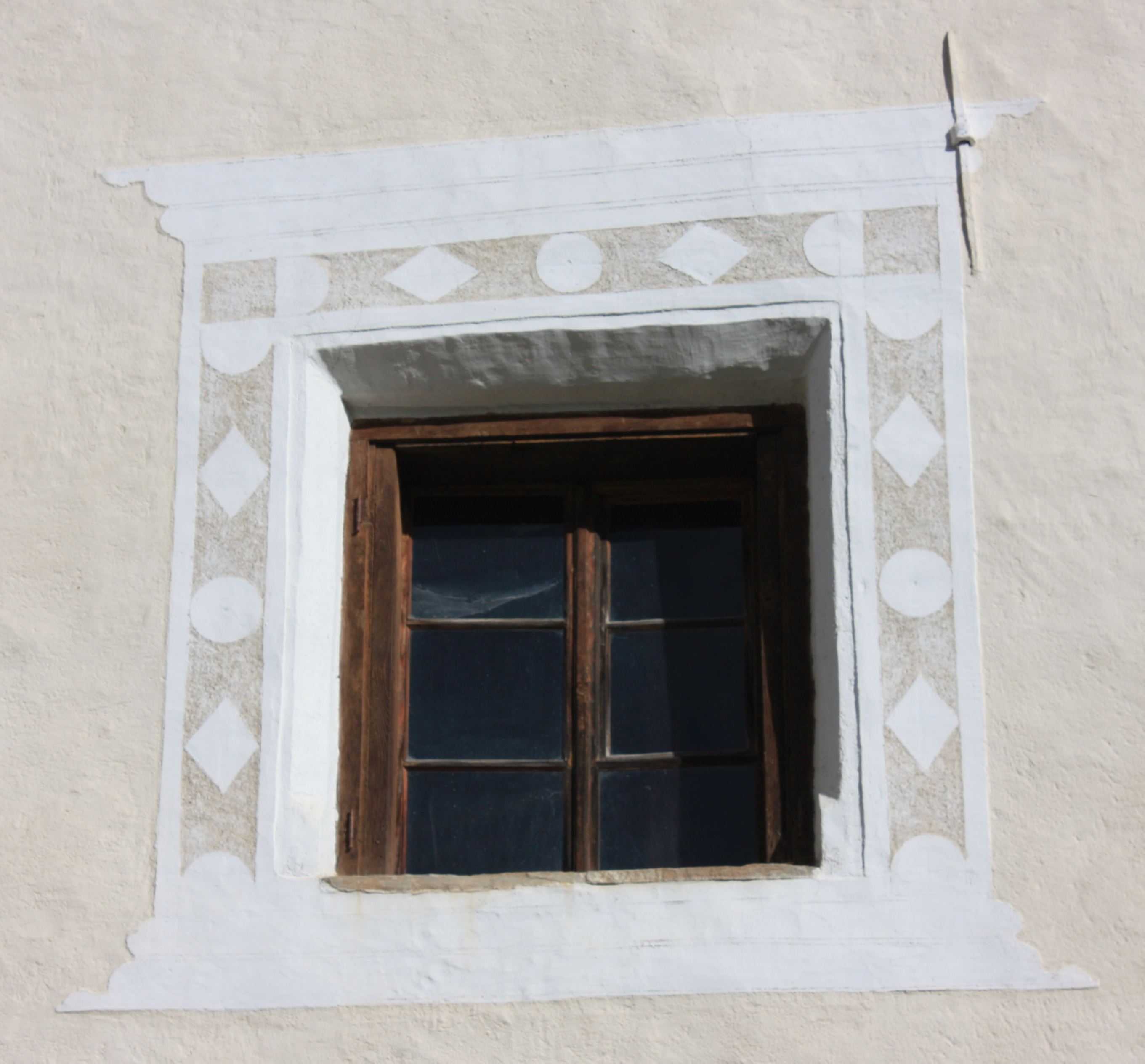 Litzelhof in Sagritz in the community of Großkirchheim- window